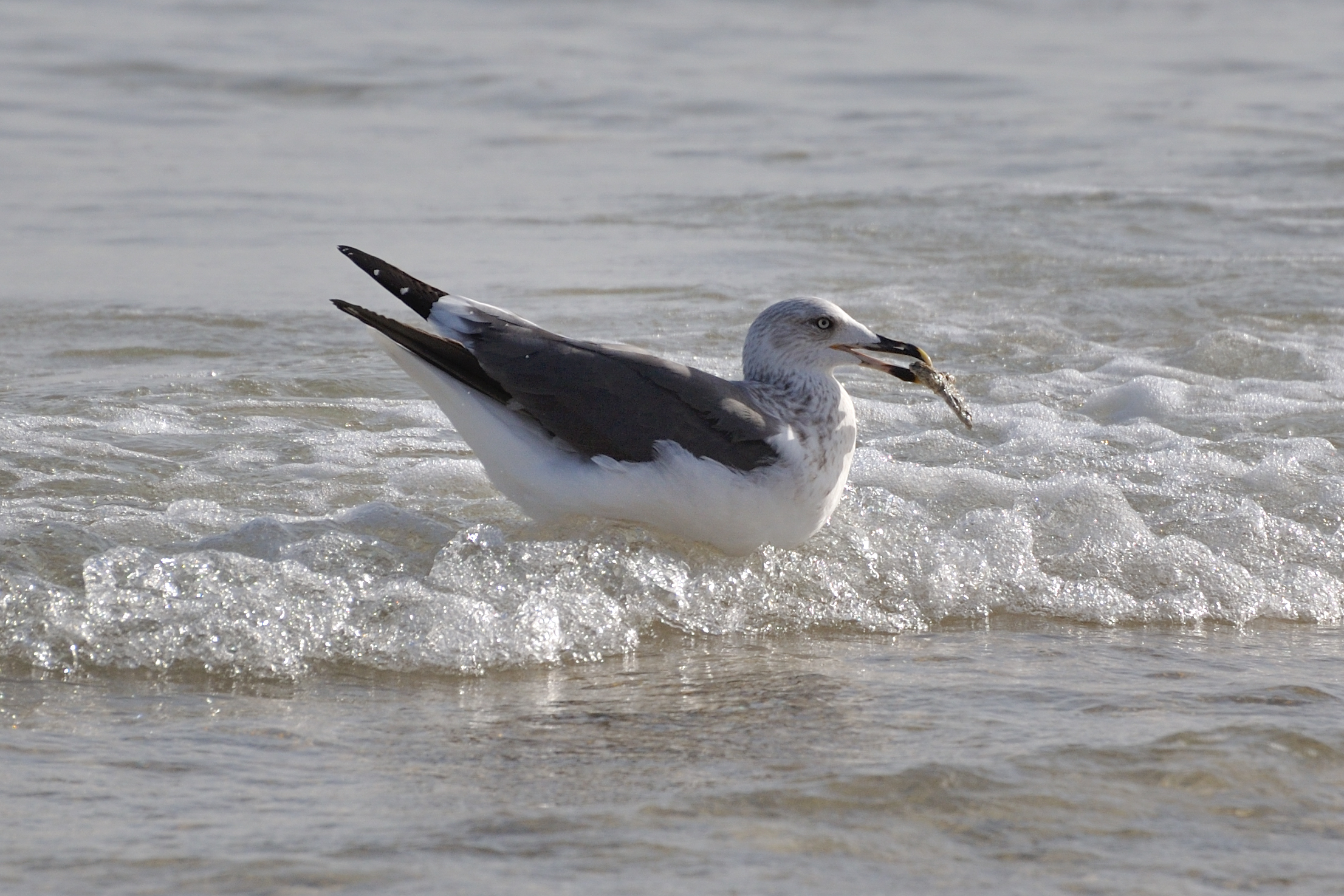 Spain, A third-winter Lesser Black-Backed Gull (Larus fuscus intermedius) on the beach of Fuerteventura